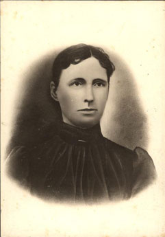 From the website a photograph of feminist/anarchist Kate Austin